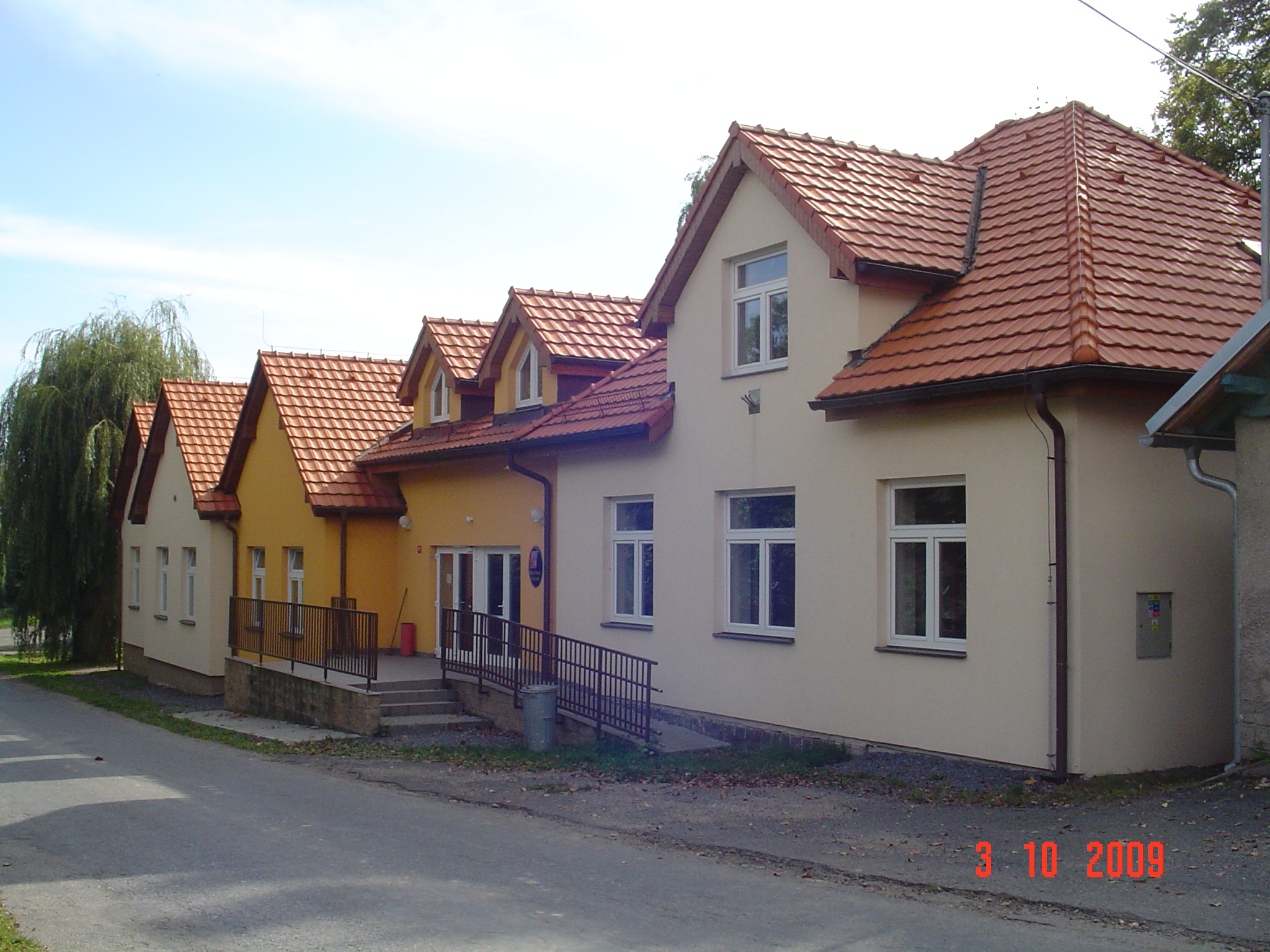 village